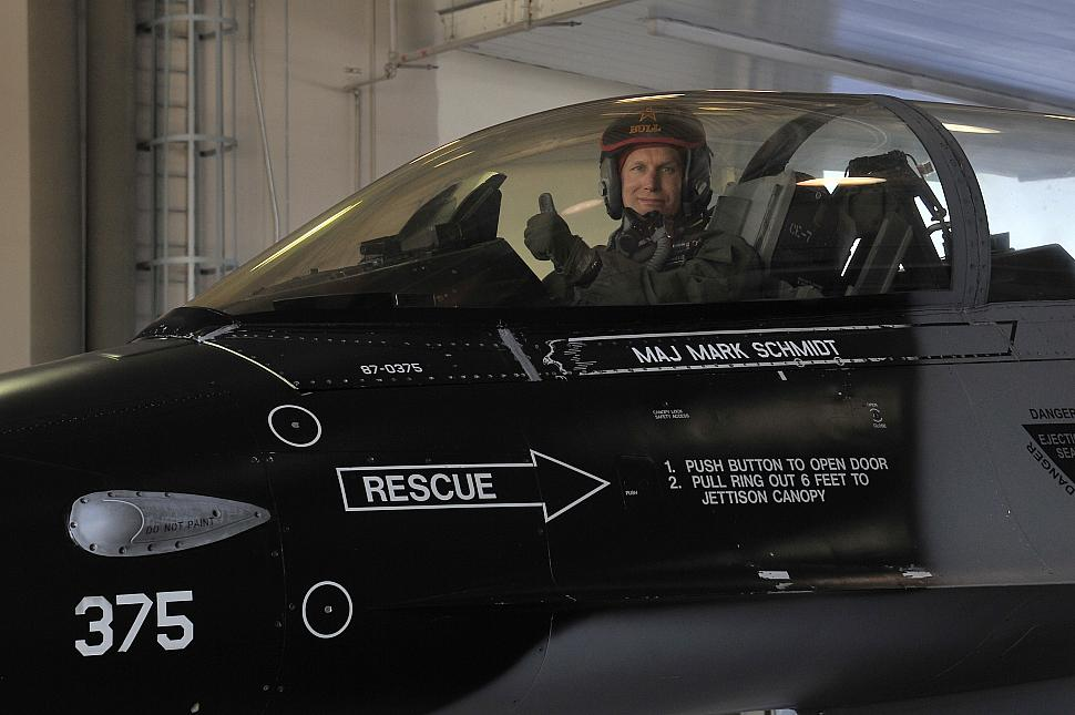 Brigadier General James N. 'Bull' Post III gives a thumbs up after landing on March 3rd, 2011 at Eielson AFB. General Post completed his 2565th sortie and achieved 4000.4 flying hours in an F-16. [USAF photo by SSgt. Christopher Boitz]